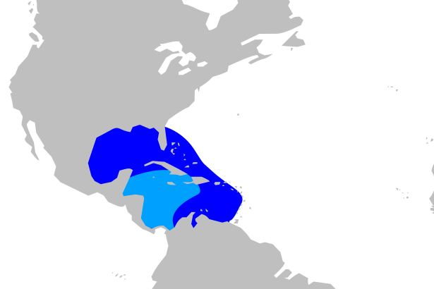 Map of the distribution of "luminous hake" (Steindachneria argentea)